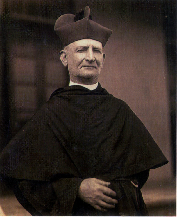 Father Michael Martin Clancy, a Roman Catholic parish priest in Innisfail, North Queensland.[formerly Geraldton]